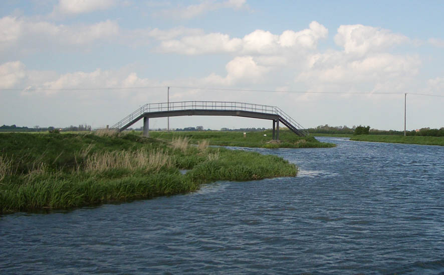 Emmotland, East Riding of Yorkshire, England, with West Beck going off the left, and Frodingham Beck, and the continuation of the Driffield Navigation to right (Michael Askin)